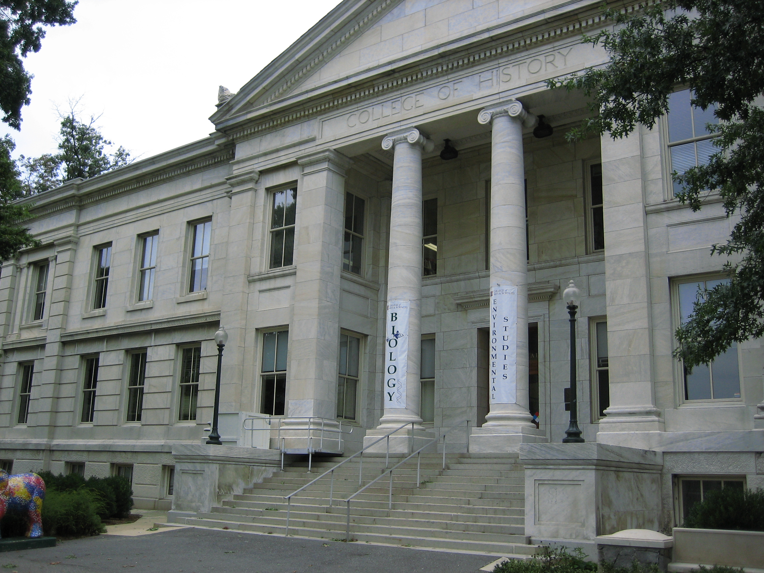 This is the Hurst building at the American University in Washington DC, USA. It was taken by me on September 4th 2006.